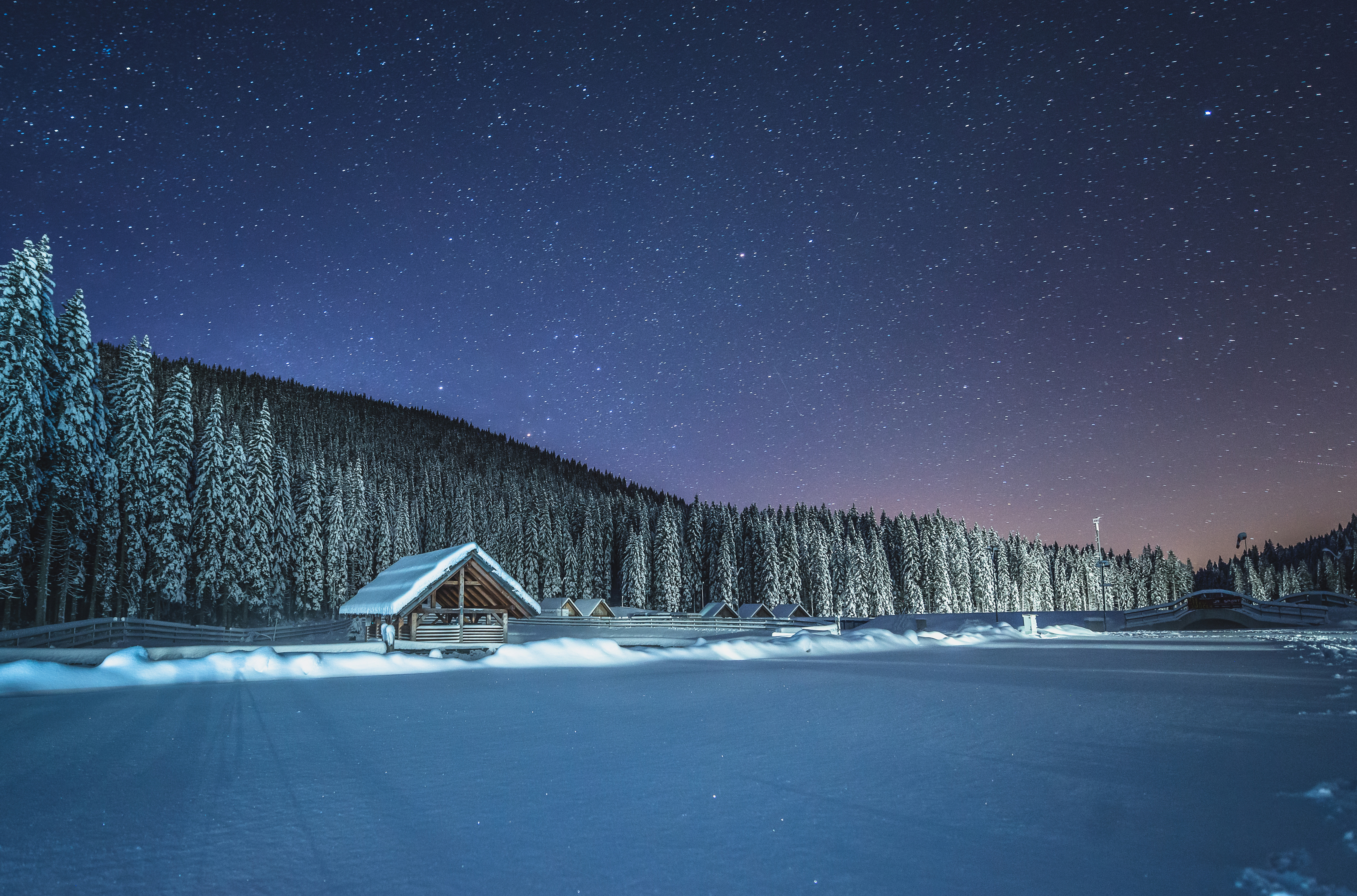 Winter cottage at night at Pokljuka.